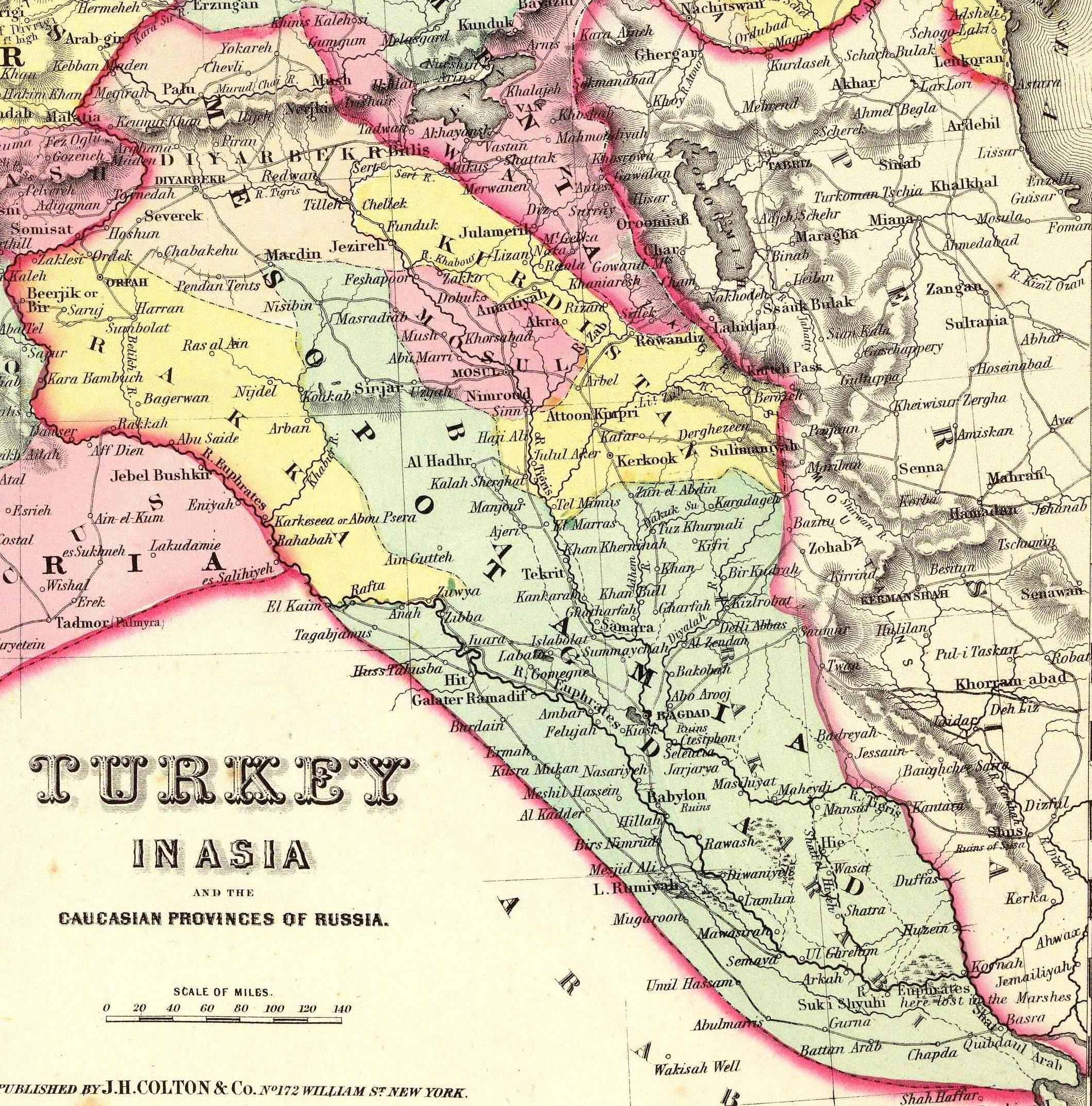 Turkey In Asia And The Caucasian Provinces Of Russia. Published By J.H. Colton & Co. No. 172 William St. New York. Entered ... 1855 by J.H. Colton & Co. ... New York. No. 25